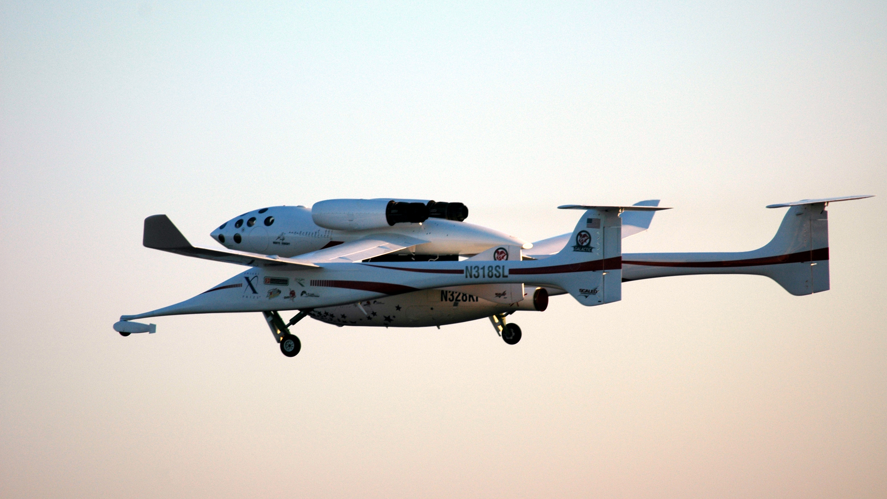 SpaceShipOne Final Flight Sept 2004 photo D Ramey Logan